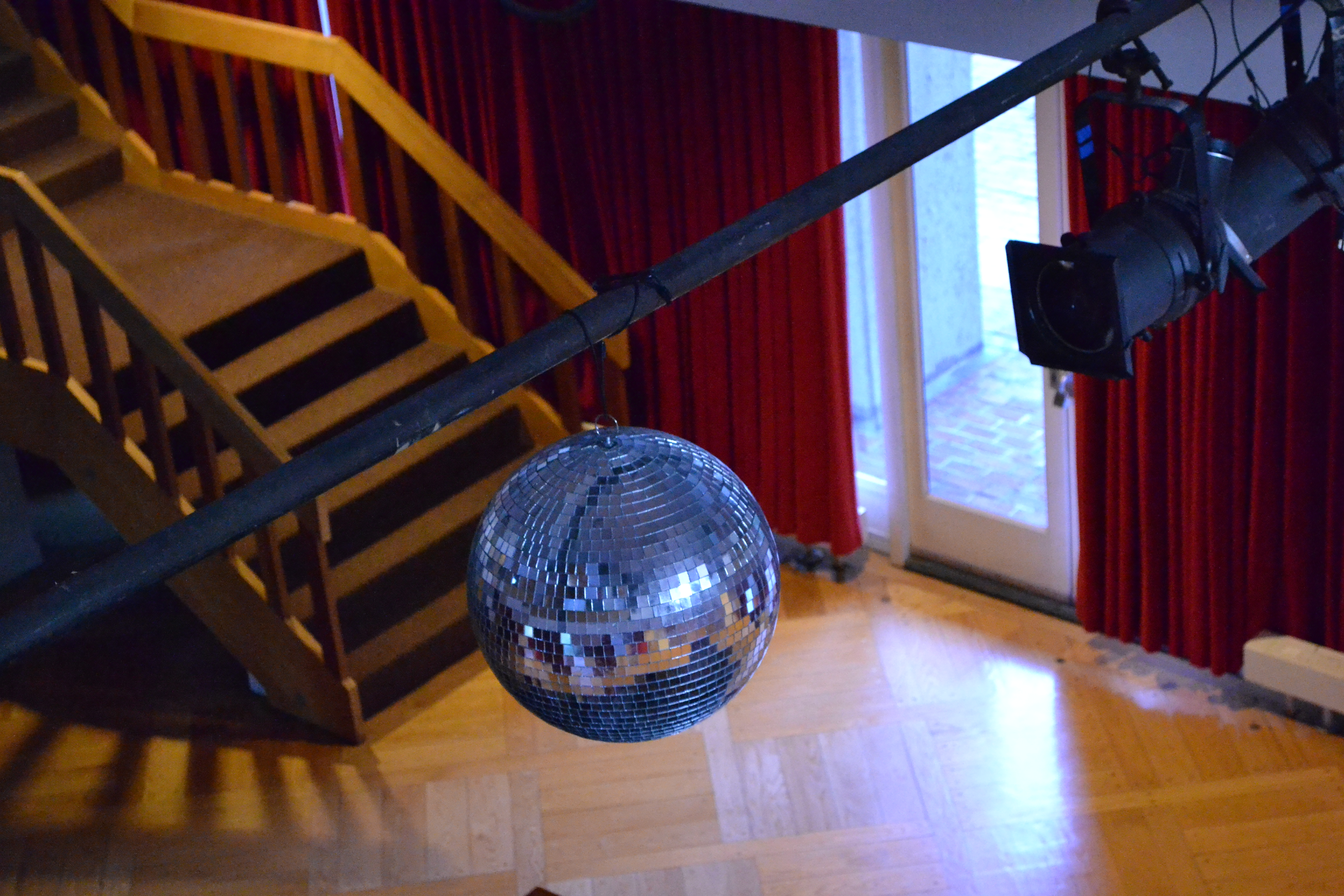 A disco ball suspended in the Fishbowl room in Currier House (Harvard College).